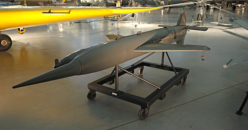 Hs 117 Schmetterling missile on display at the U.S National Air and Space Museum, Steven F. Udvar-Hazy Center. Photo taken by user Lorax from english wikipedia and released under the GFDL.